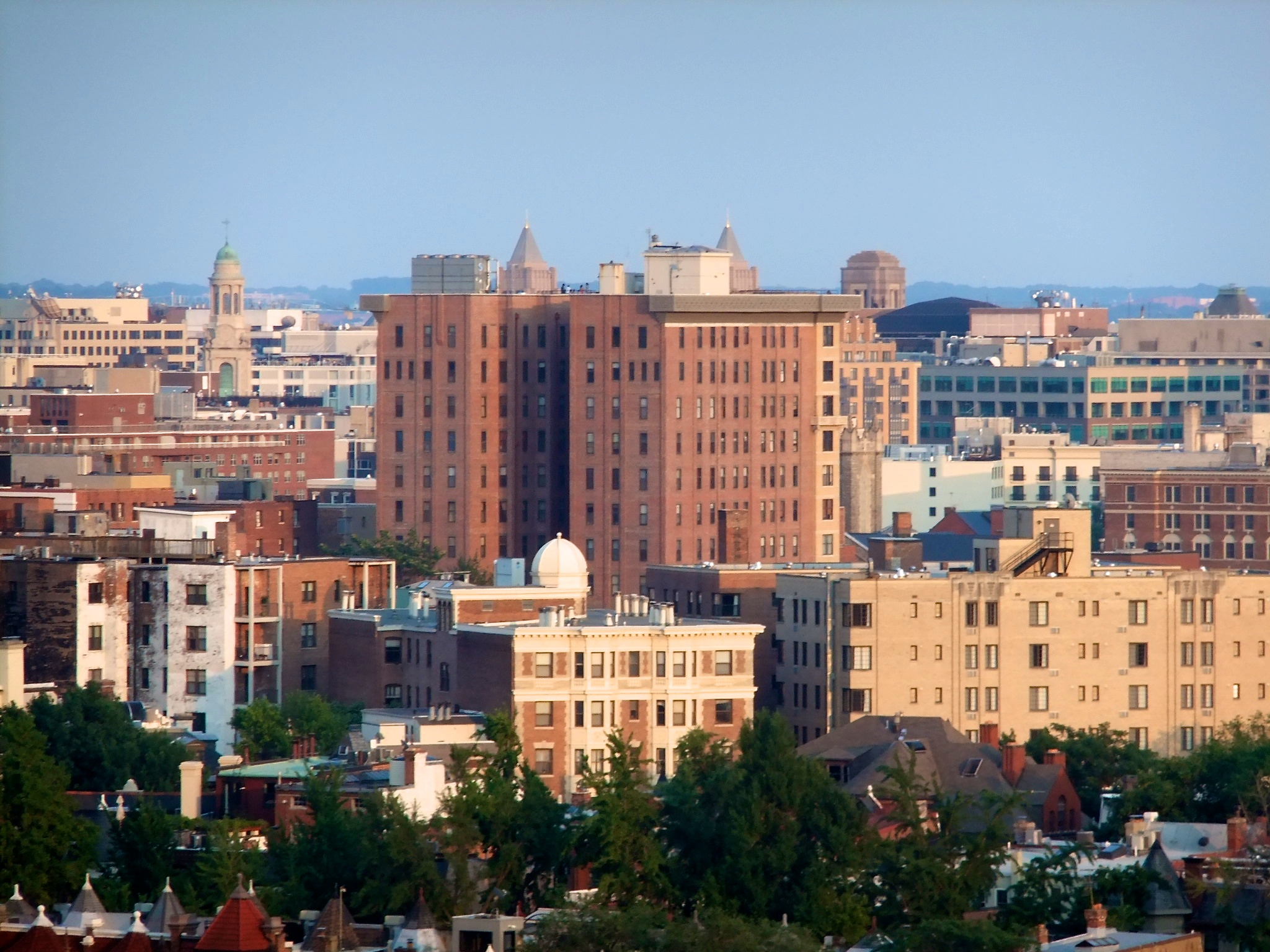 The Cairo Building, Washington DC